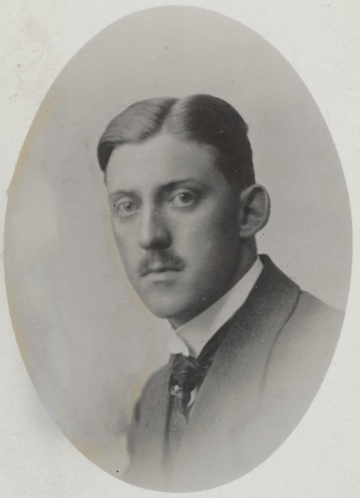 Prof. dr. H.B. Dorgelo, professor at Delft University of Technology. Photo ca. 1926